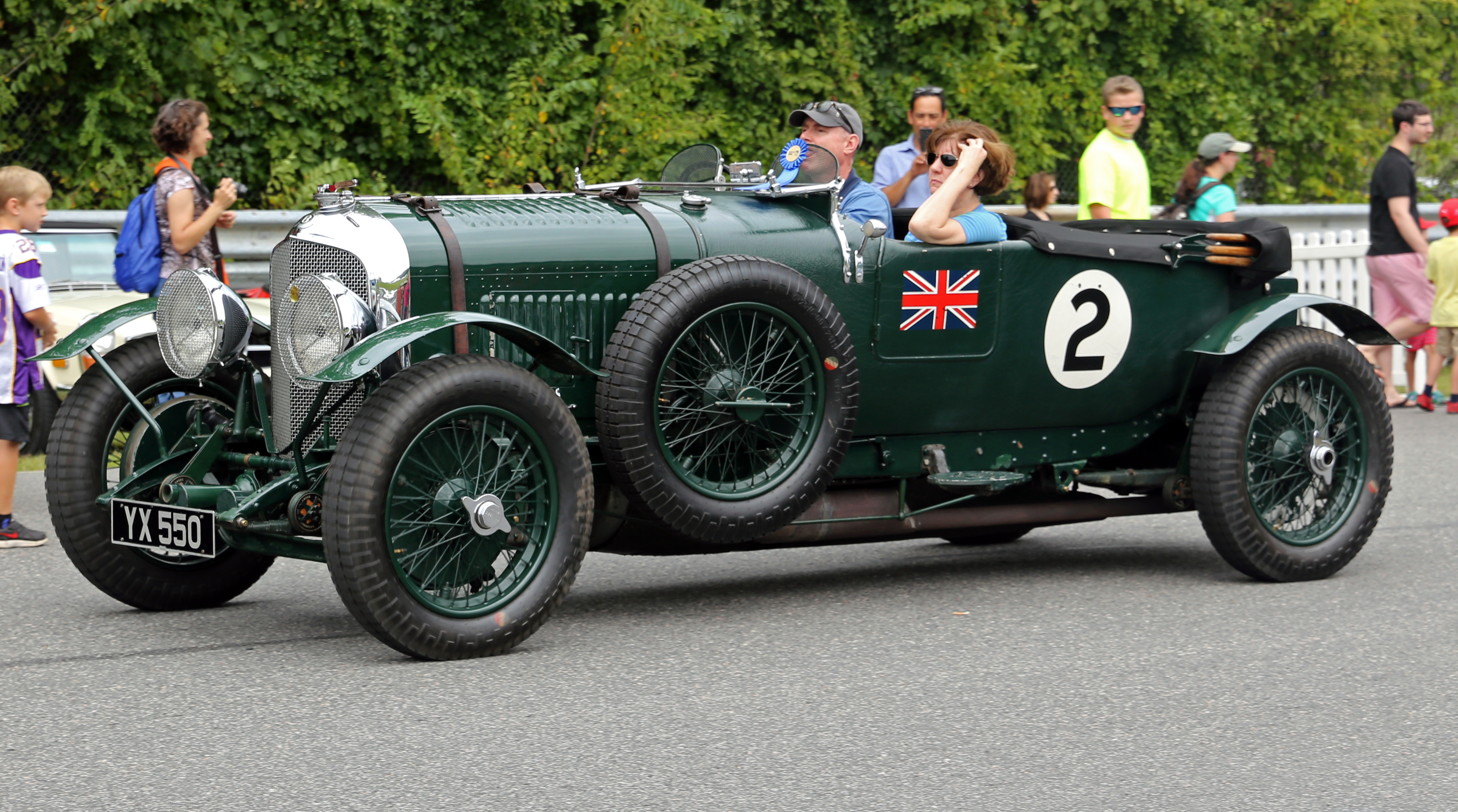 A 1928 Bentley 4½ Litre at the 2014 Lime Rock Concours d'Élegance, belonging to Roger Noble of Connecticut since 1958. Originally a Harrison-bodied convertible, s/n PM3272 received a 2/3 seater rebodying in 1957 and later a full Le Mans spec conversion. Engine number FT3201, originally sold to a "WOOD C H". Plate number YX 550.